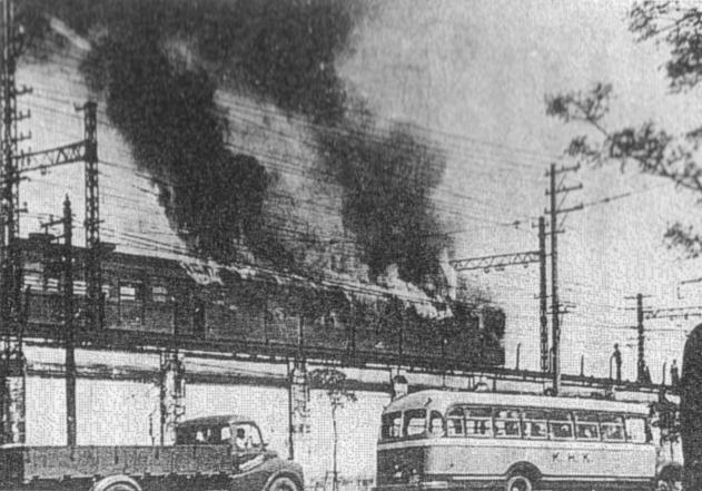 Train caught fire at Sakuragichō Station, Yokohama, Japan (桜木町事故)